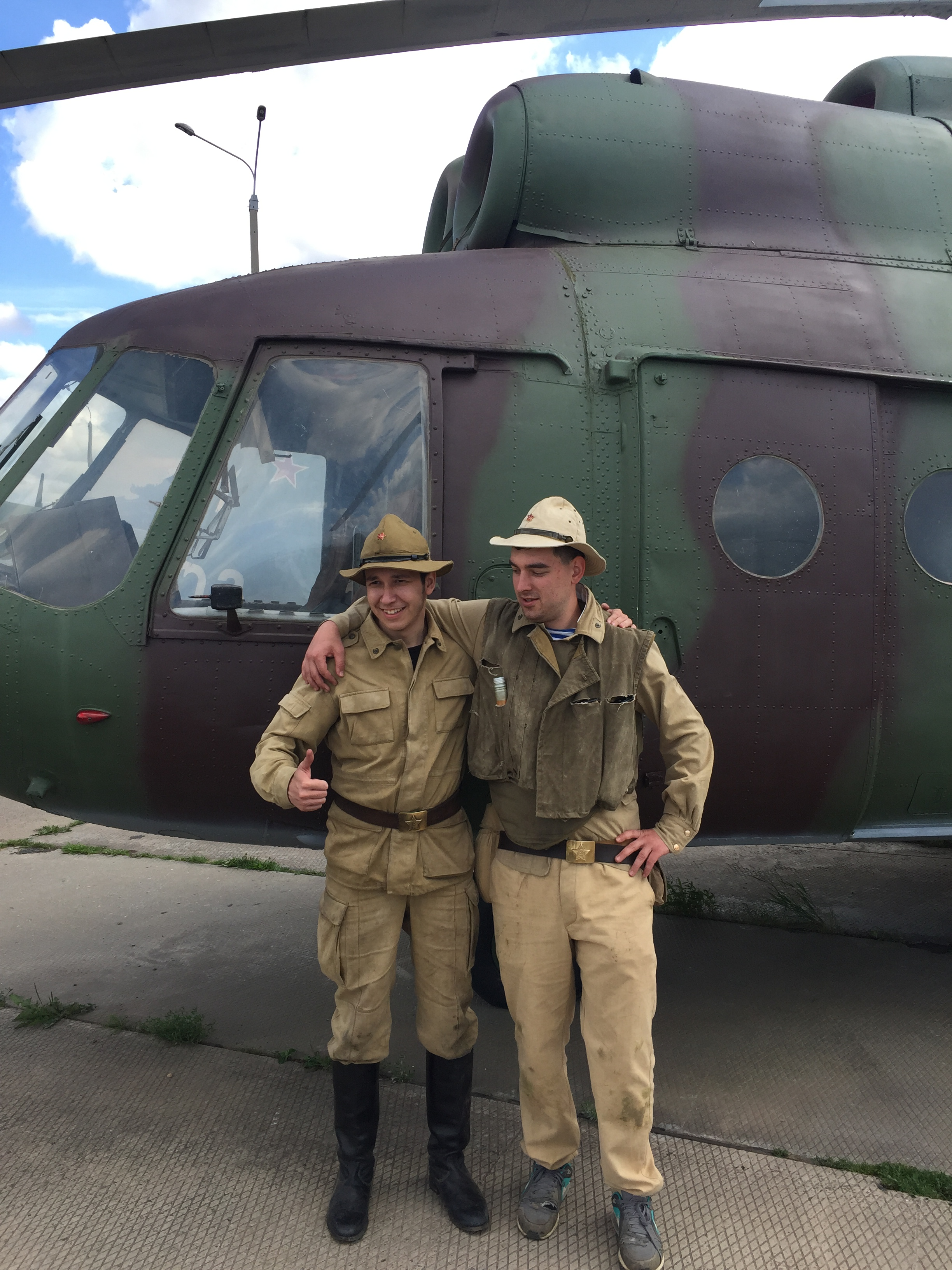 Reenactment in Minsk (Belarus) for VDV day